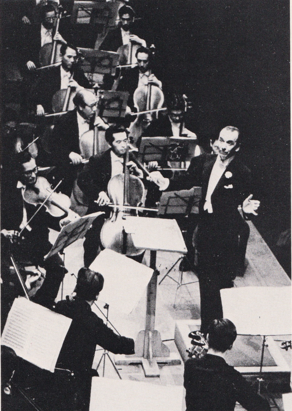 The 25th Anniversary of the Foundation of Hibiya Kokaido (Hibiya Public Hall). Sir Malcolm Sargent Conducts in NHK Symphony Orchestra, Tokyo. taken in Oct. 19 1954